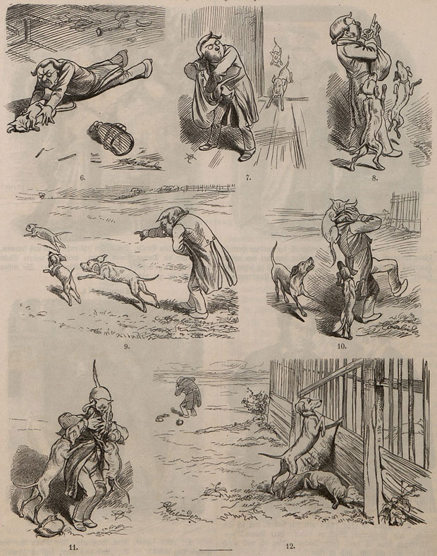 Adolf Oberländer, « Rache einer Hauskatze », Fliegende Blätter, Vol. 67, n° 1685, 1877.